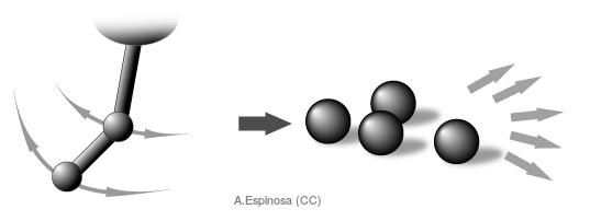 Examples of chaotic systems